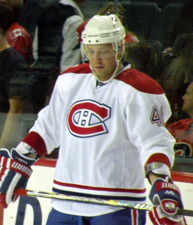 Montreal Canadiens forward Andrei Kostitsyn during warm-up prior to a National Hockey League game against the Calgary Flames, in Calgary.